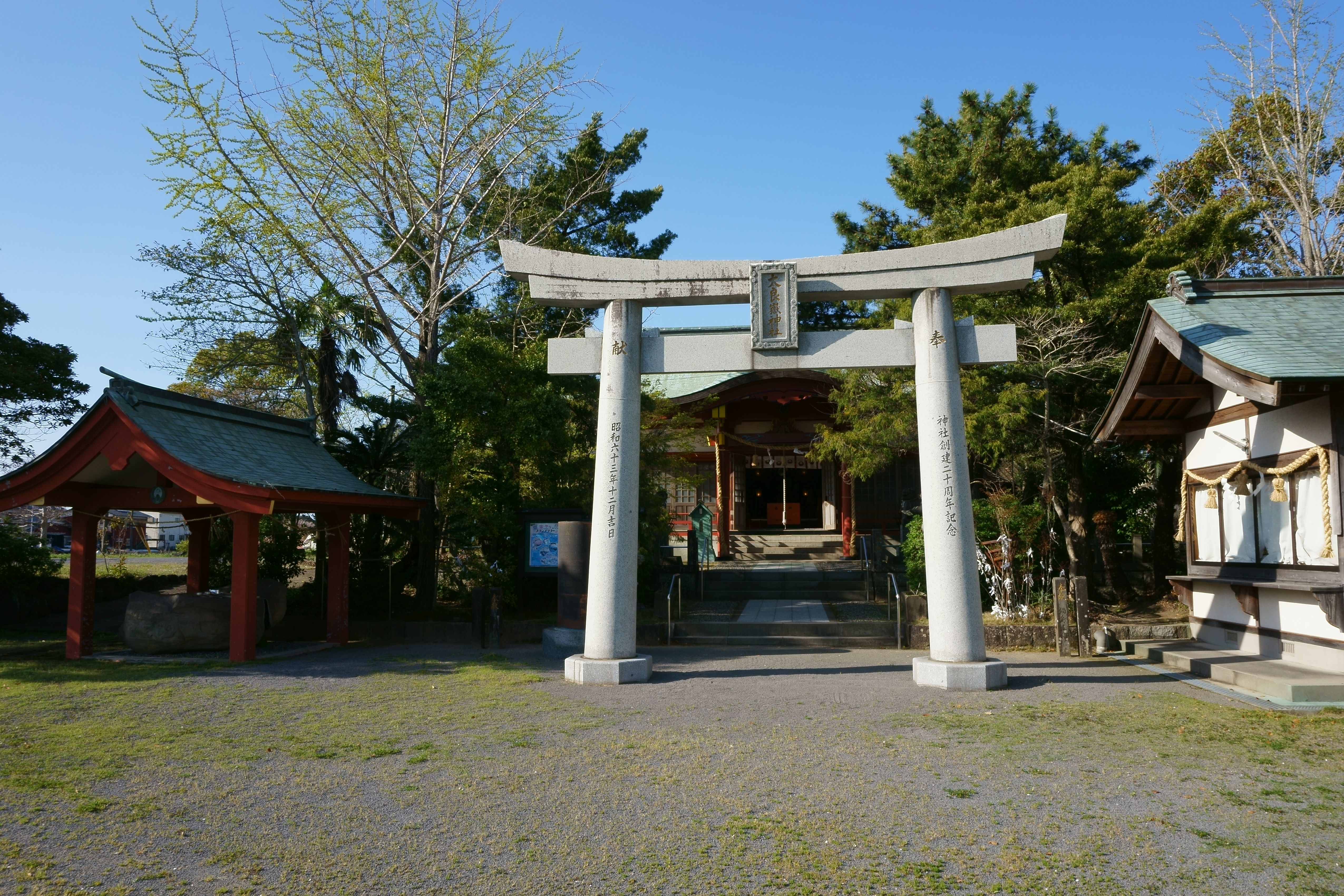 Taradake Shrine lower halls in Tara town, Saga prefecture.